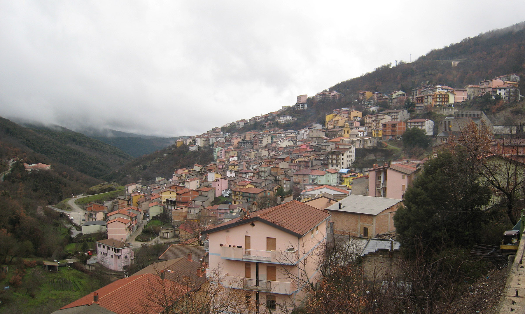 The village of Desulo, Sardinia